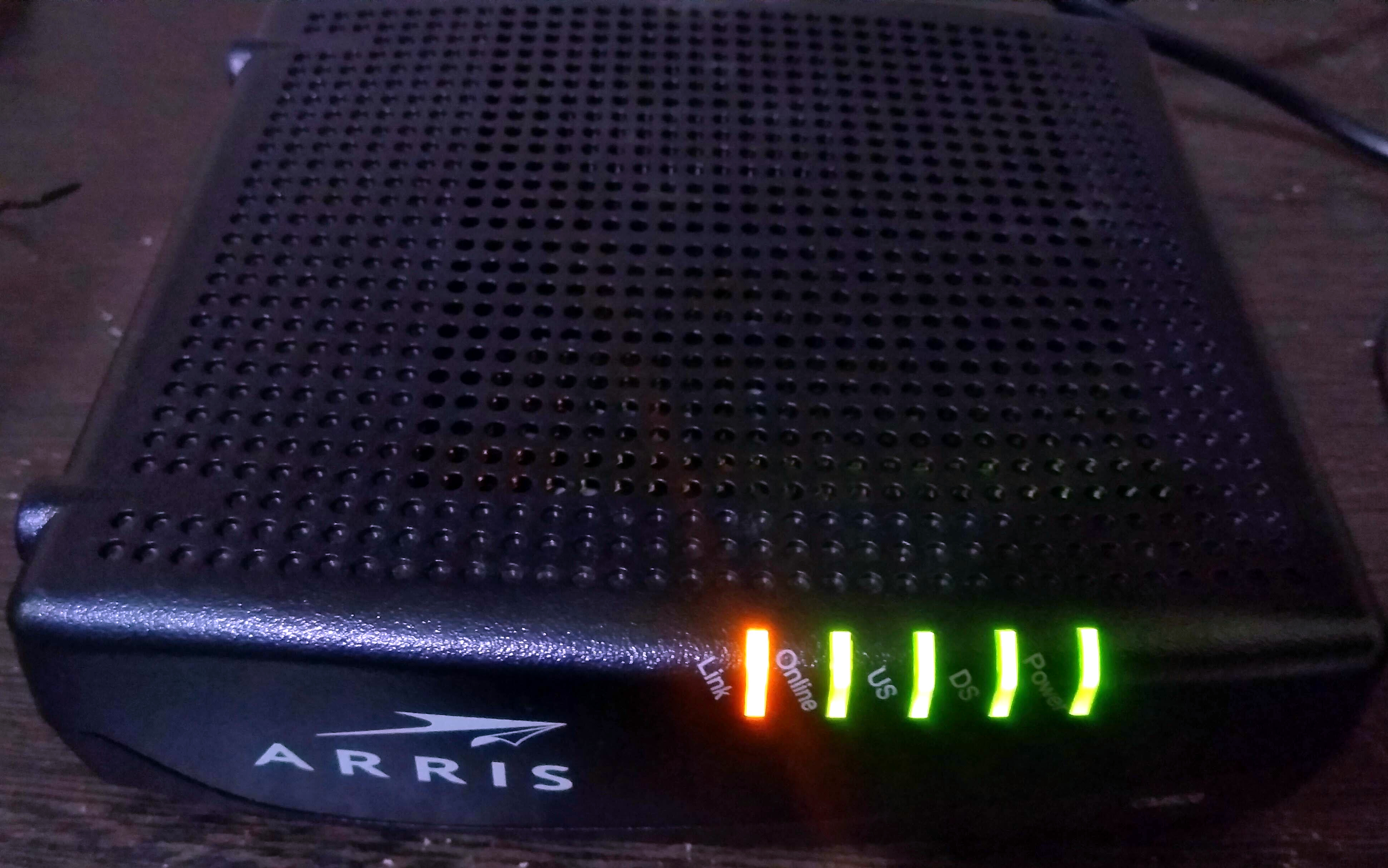 ARRIS CM820B DOCSIS Cable Modem "DS" and "US" stand for "Downstream" and "Upstream" respectively. "Link" (Ethernet) light is yellow for 100 Mbit/s and green for 1000 Mbit/s.